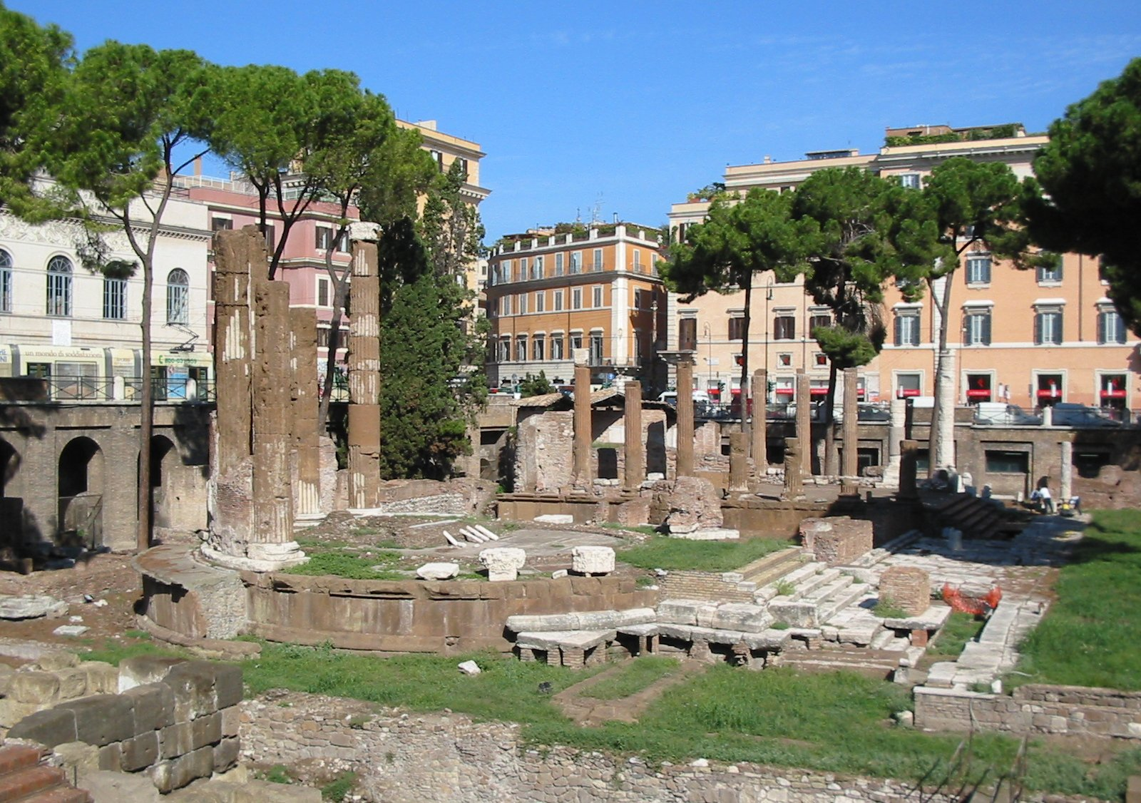 The Temple B, devoted to Aedes Fortunae Huiusce Diei.